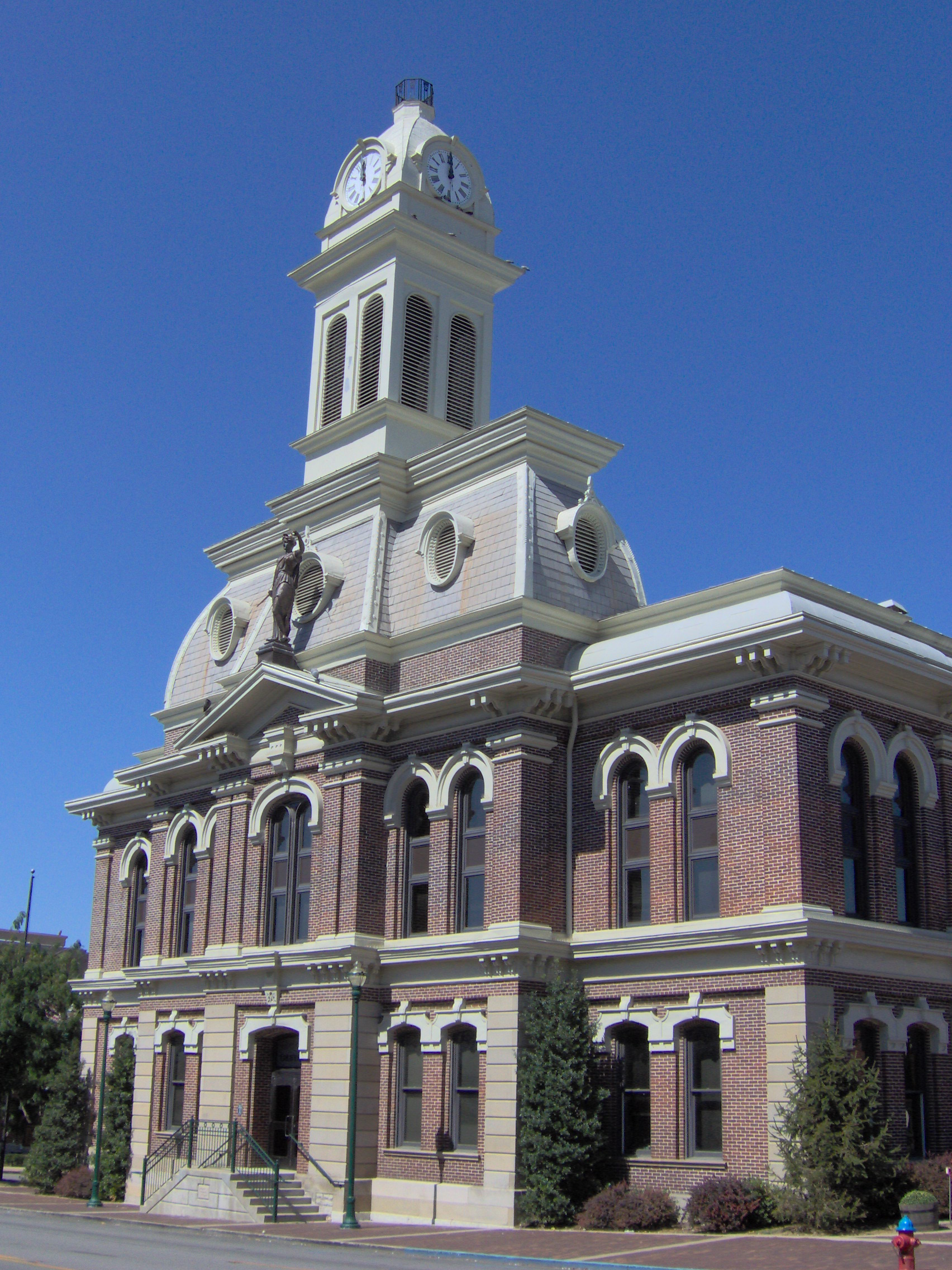 Scott County Courthouse in in Georgetown, Kentucky the countyseat of Scott County, Kentucky.